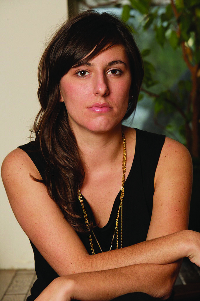 Profile picture of author Jessica Valenti